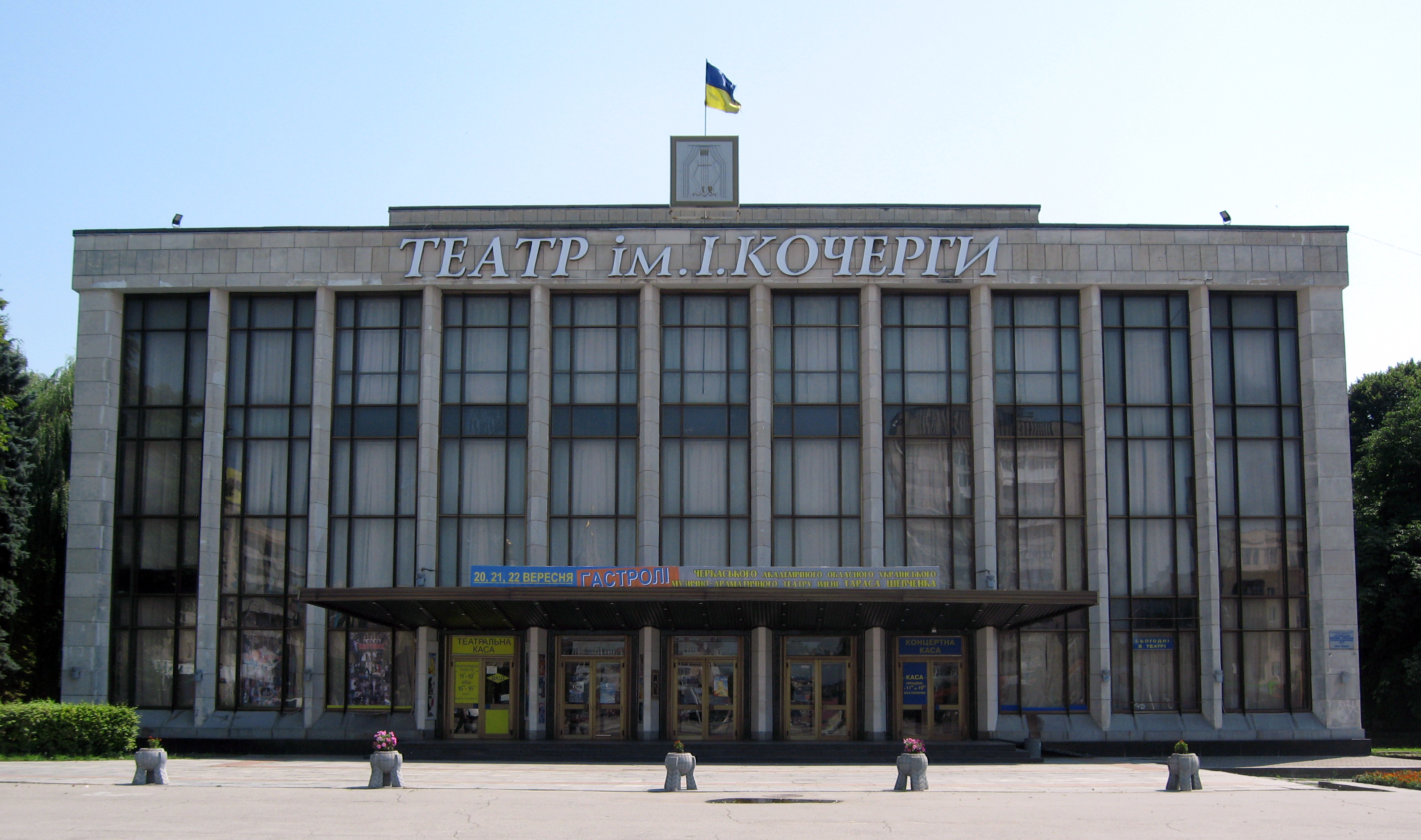 The Theatre in Zhytomyr (Ukrainian: Житомир